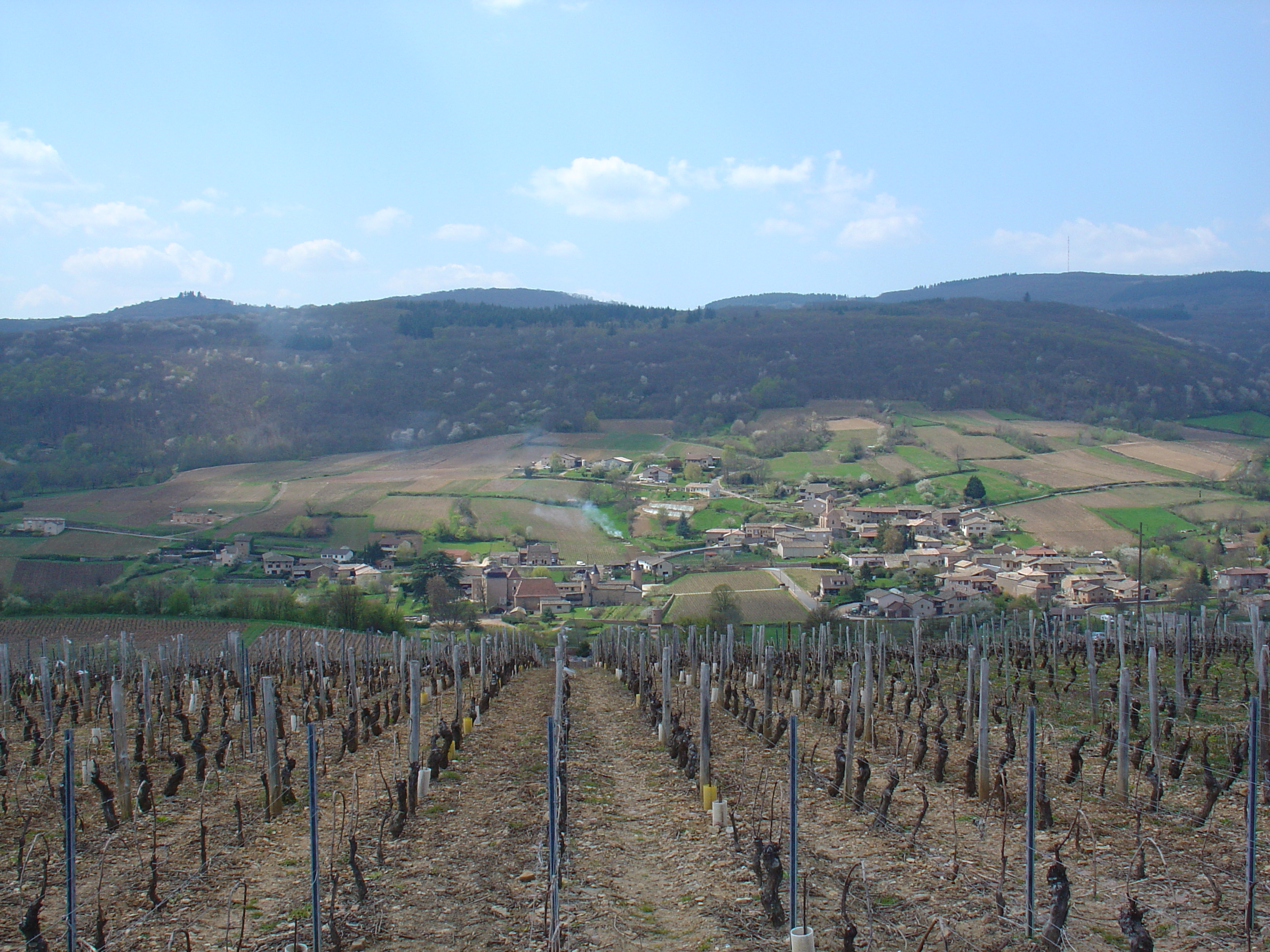 The village of Leynes. Saône et Loire (71), France